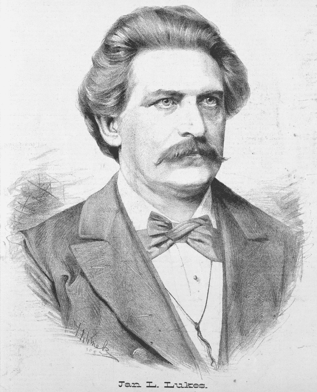 Portrait of Jan Ludvík Lukes (1824-1906), Czech opera singer